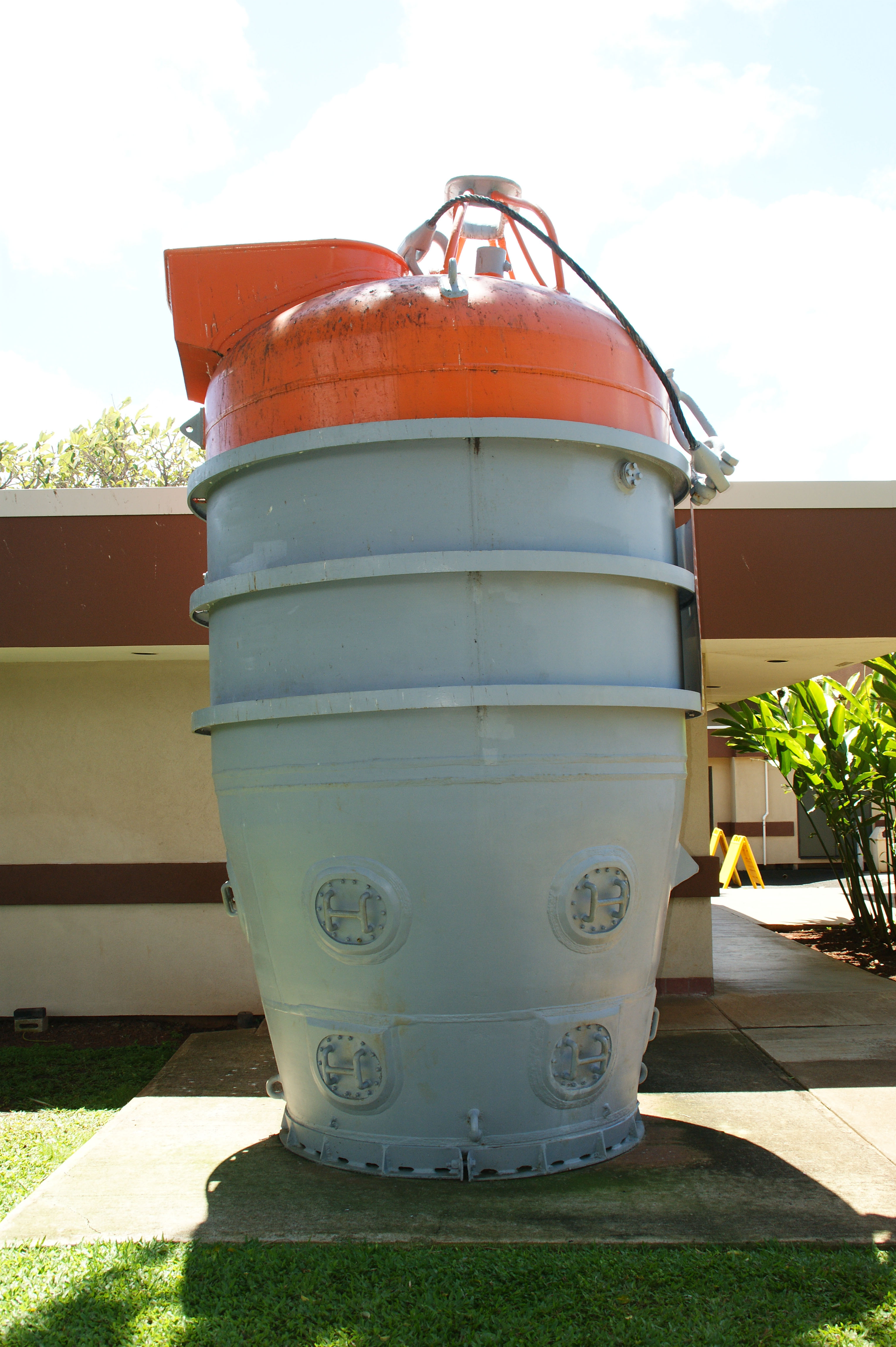 Submarine Rescue Chamber (SRC-15) From USS Florikan (ASR-9).